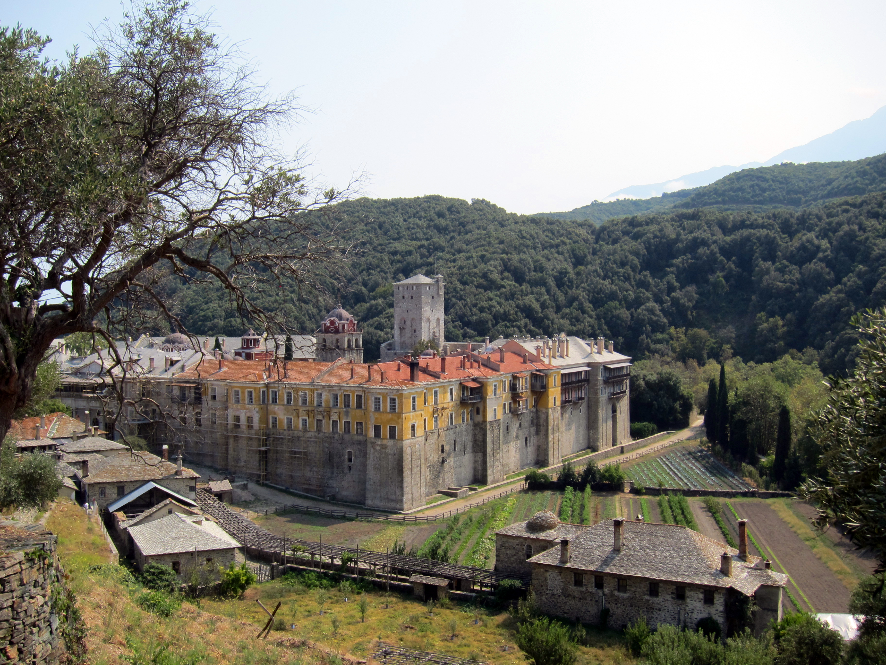 Iviron monastery as seen from trail connecting it to Karyes